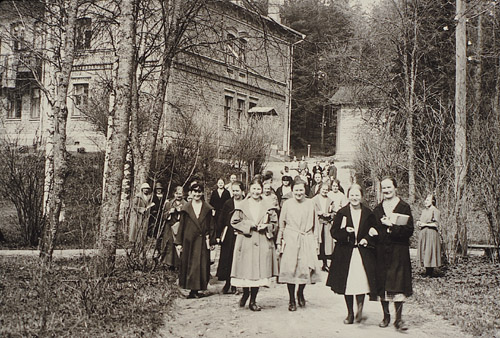 Female students of Jyväskylä teacher seminary in 1920's.